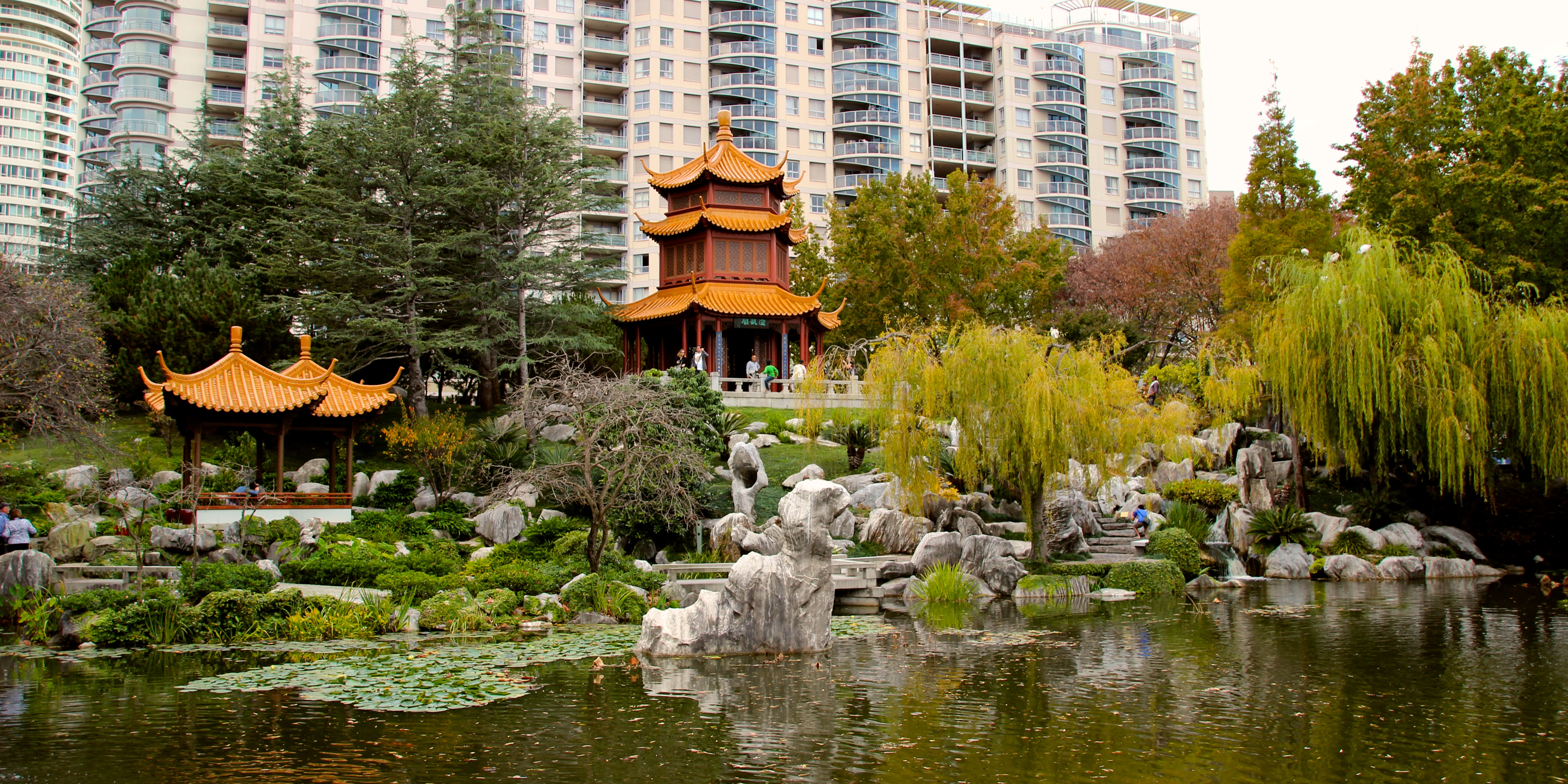 This photo is taken in the Chinese Garden of Friendship looking back at the city (Sydney).